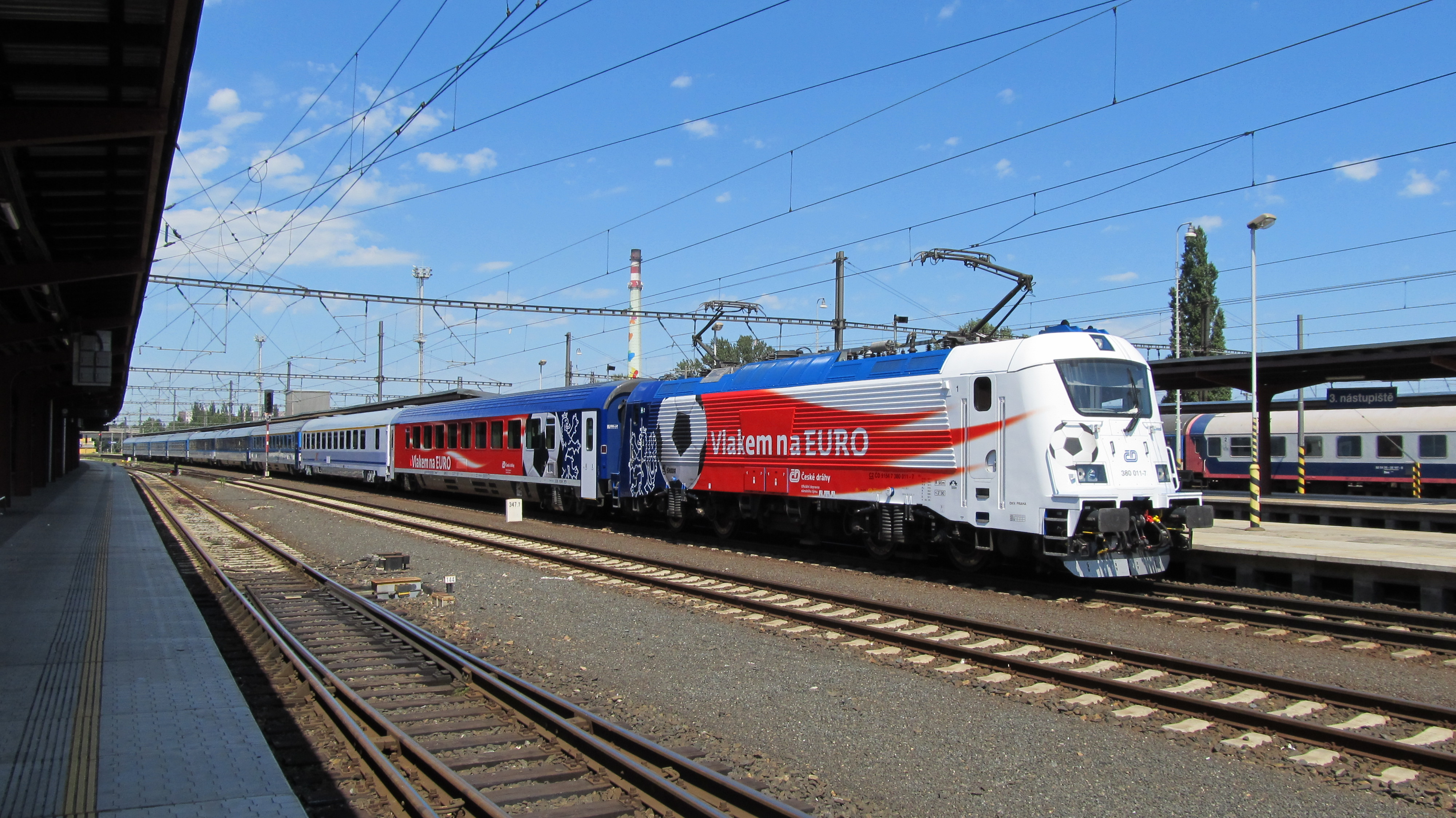 Electric locomotive 380.011-7 of České dráhy with paint campaign Vlakem na EURO headed by a special fan train EC 1. nsl 505 Karol Dobiáš in Kolín